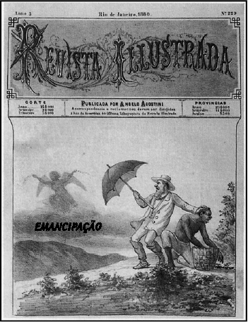 1880 Brazilian cartoon shows slave owner trying to fend off emancipation with an umbrella.